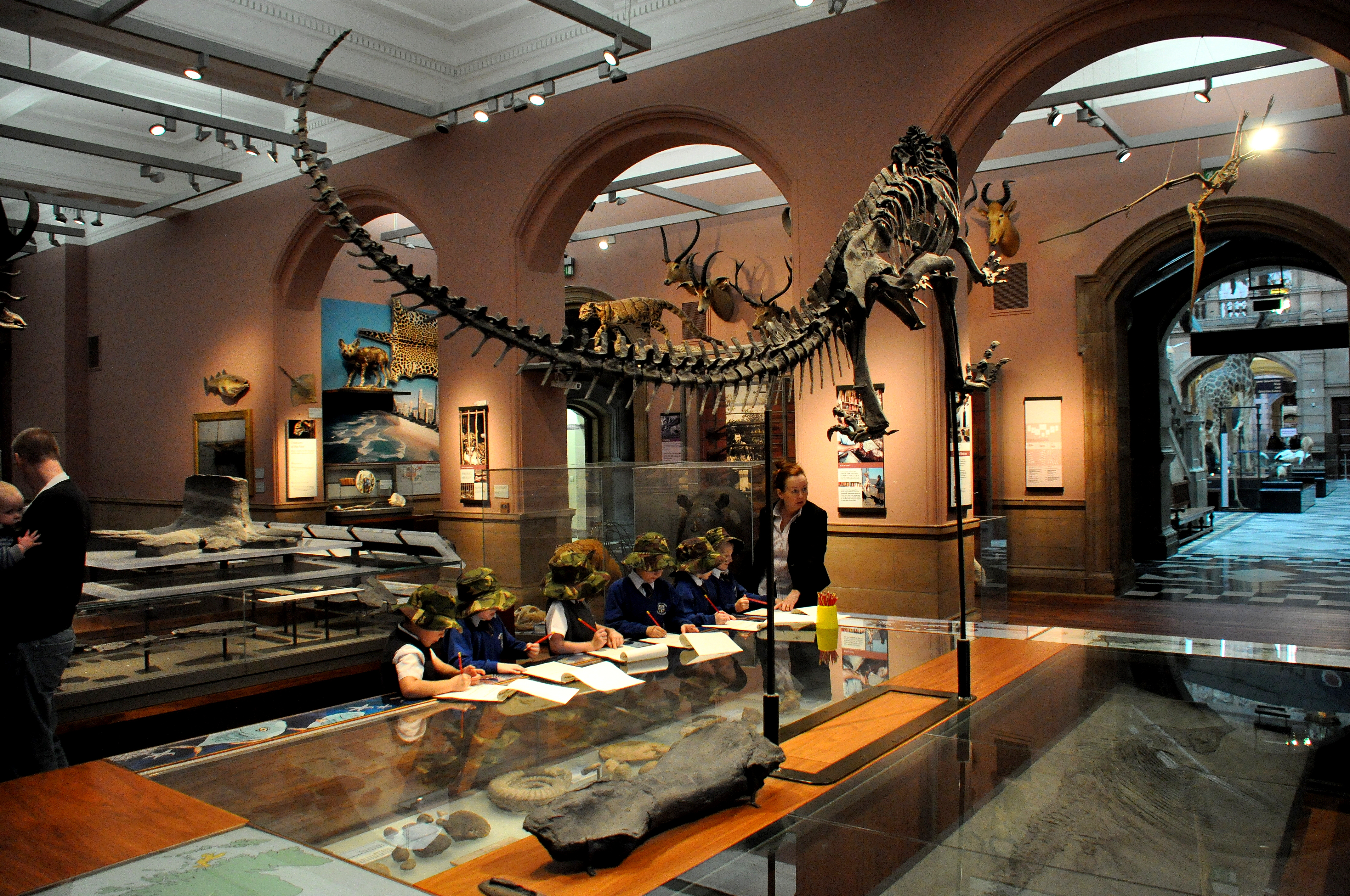 One of the halls of the museum. Kelvingrove Art Gallery and Museum, Glasgow, Scotland, the United Kingdom.